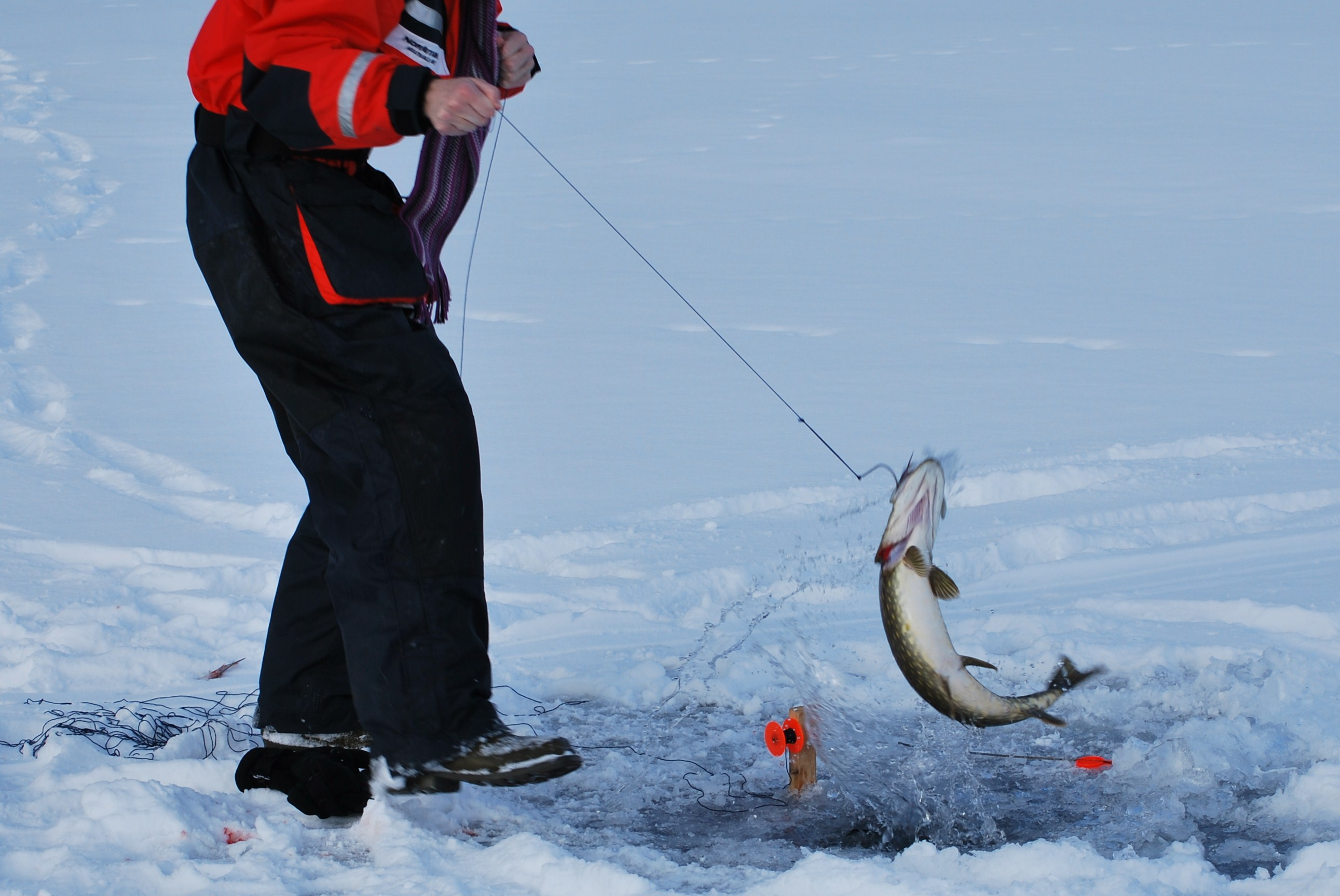 A Swedish fisher, landing his catch.